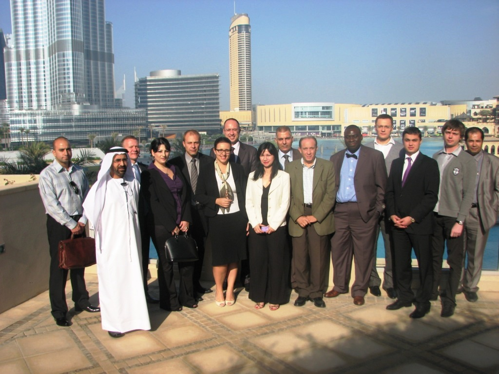 Форум